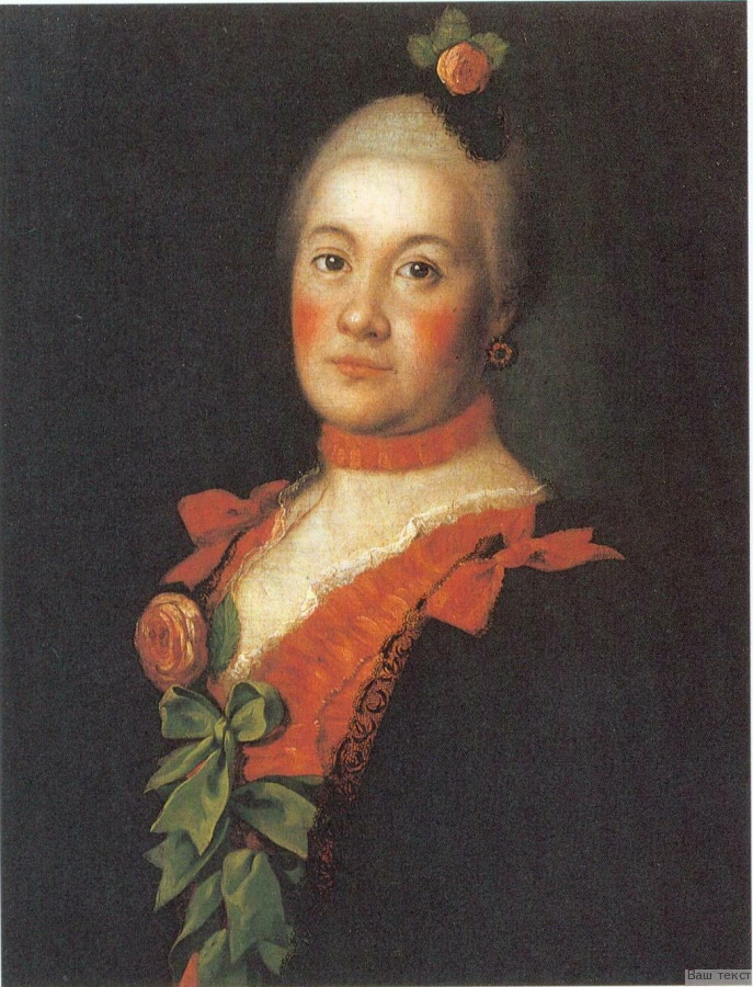 Portrait of Tatiana Trubetskaya